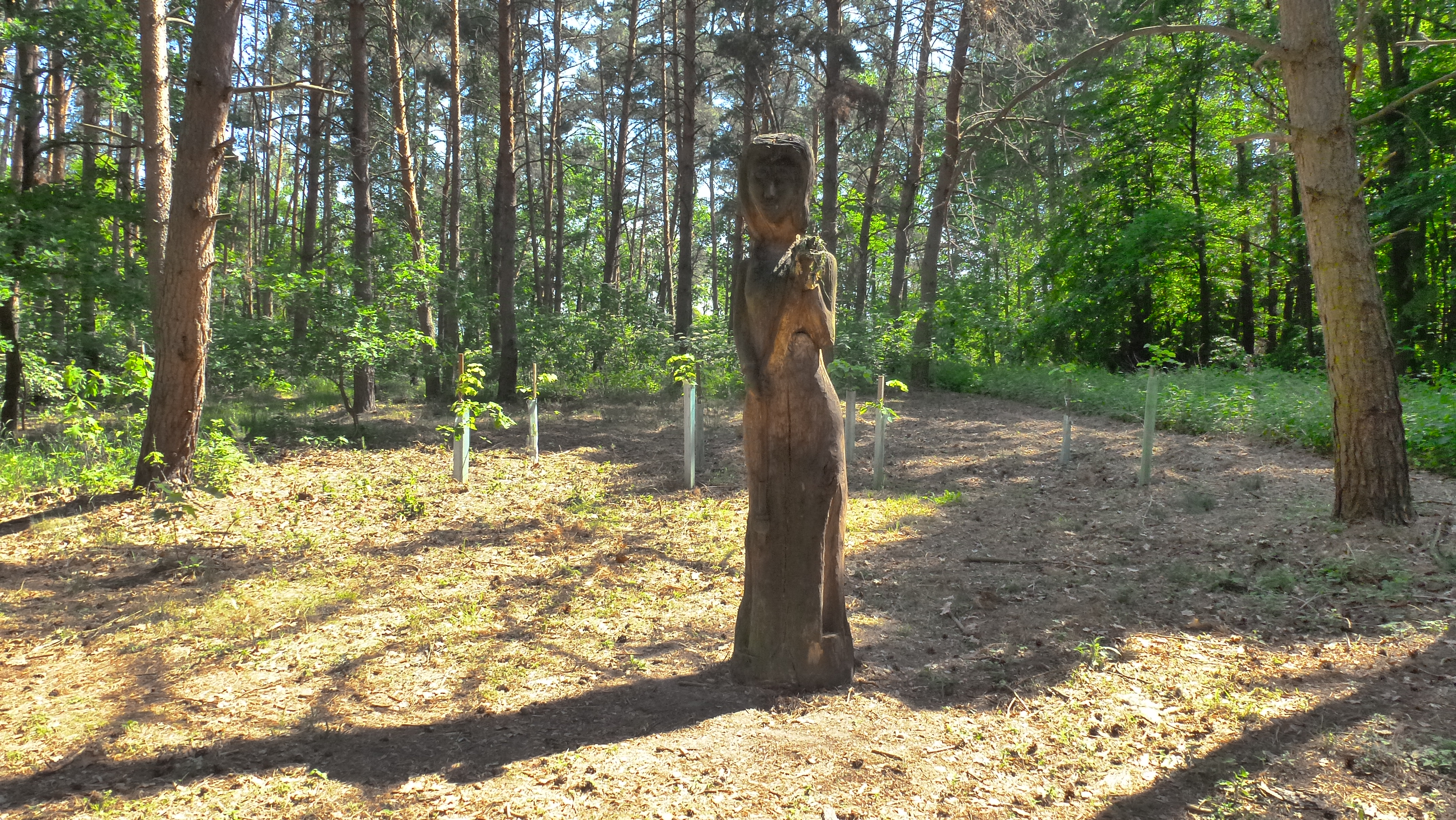 socha bohyně Mokoš nedaleko obce